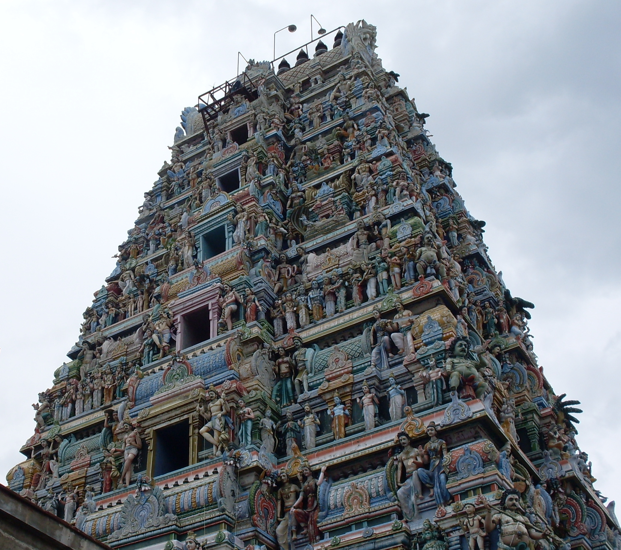 Belur Thanthondreeswarar Temple Tower, Salem, Tamil Nadu